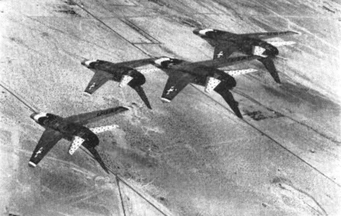 Four North American F-100C Super Sabres of the U.S. Air Force "Thunderbirds" aerobatics team, probably at Nellis Air Force Base, Nevada (USA). The "Thunderbirds" converted to the F-100C in June 1956.